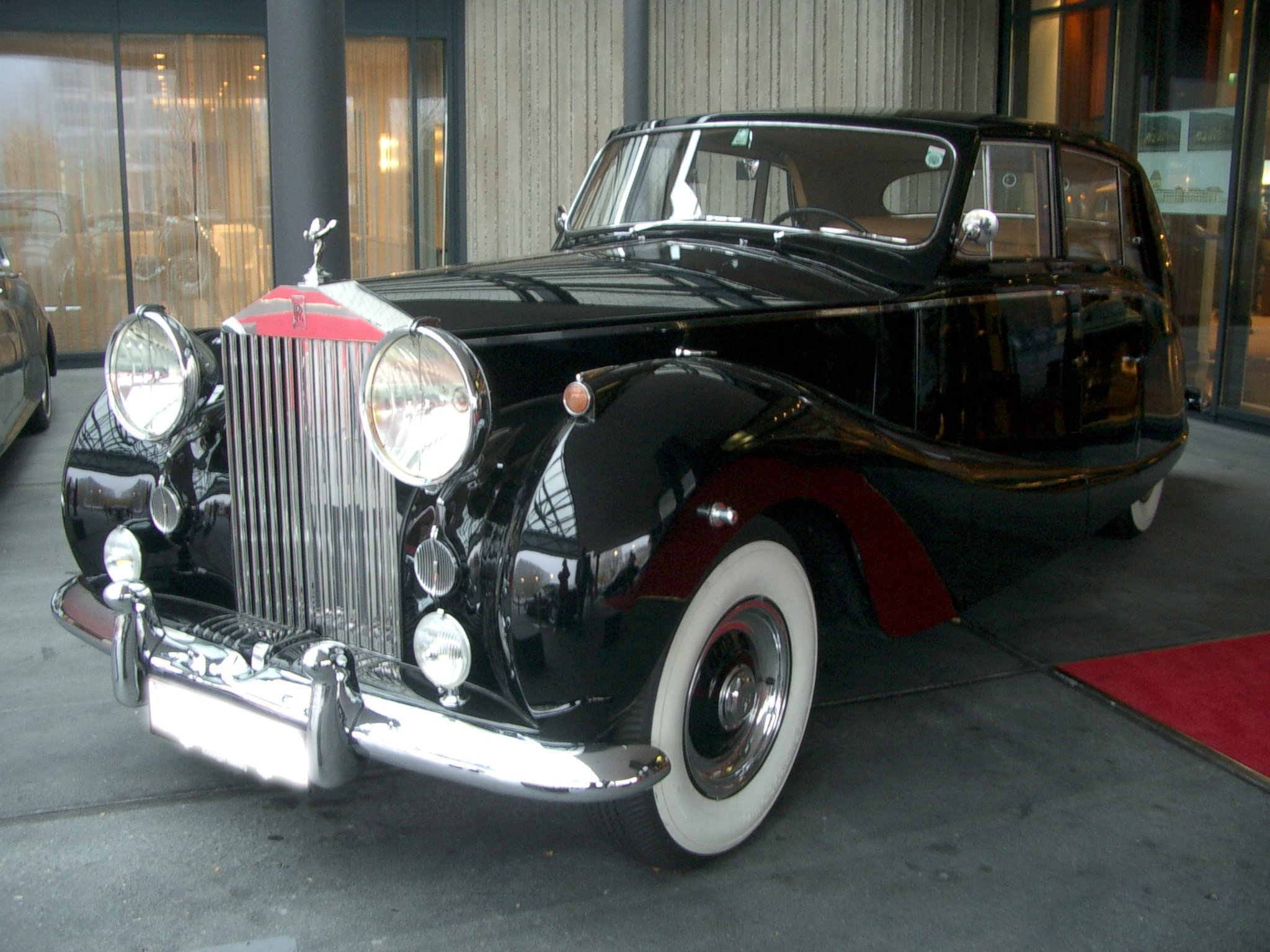 Hooper-bodied 1955 Rolls Royce Silver Wraith